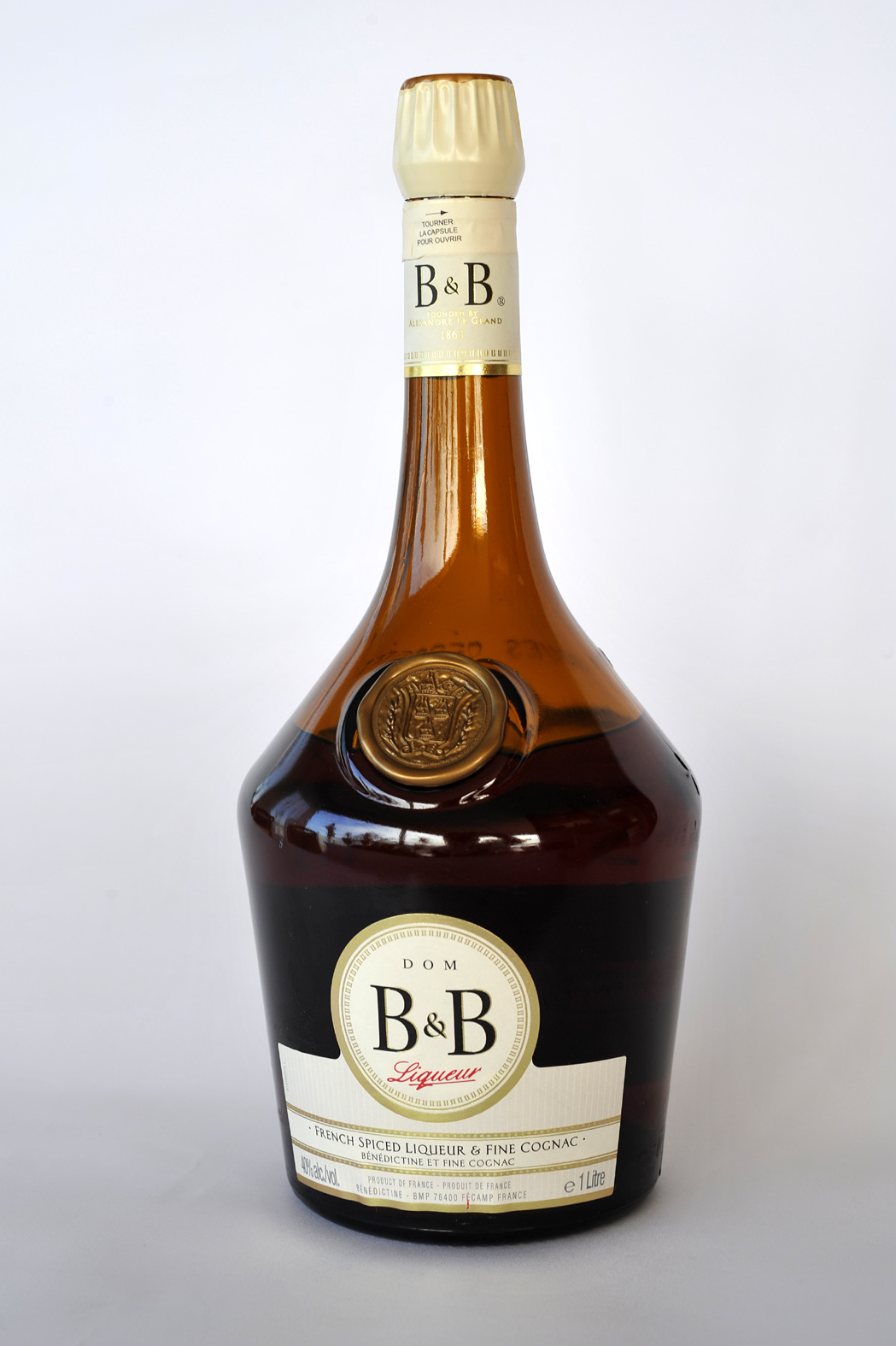 100 cl bottle of B & B a mix of Bénedictine and Brandy